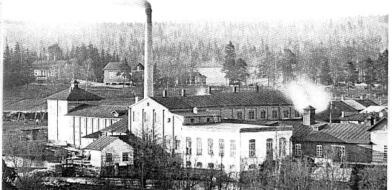 Hovinmaa paper mill by the Rakkolanjoki river in former Finnish Karelia, active from 1873 to circa 1944 when the Soviet Union claimed the area from Finland.